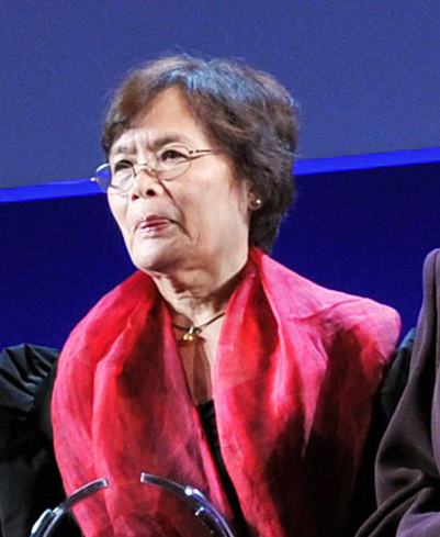 Lourdes J. Cruz Crop from the picture 2010 UNESCO-L’Oréal Prize for Women in Science Awards Ceremony – From left to right : Pr Elaine Fuchs (USA), Pr Anne Dejean-Assémat (France), Sir Lindsay Owen-Jones, Chairman of L’Oréal, Pr Alejandra Bravo (Mexico), Pr Lourdes J. Cruz (Philippines), Pr Rashika El Ridi (Egypt), Ms Irina Bokova, Director-General of UNESCO, and Pr Günter Blobel, Nobel Prize in Medicine 1999. UNESCO Headquarters, Paris